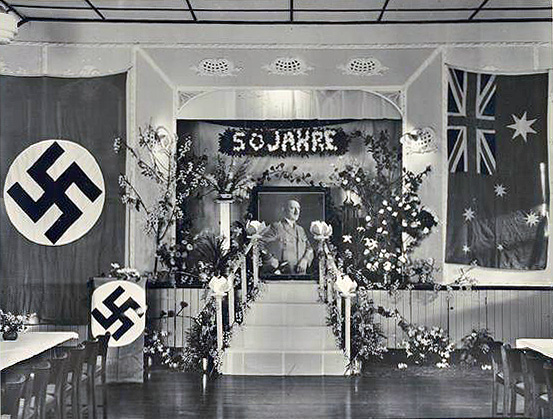 Adolf Hitler's 50th birthday party in Australia. Taken in a German Club, Adelaide.